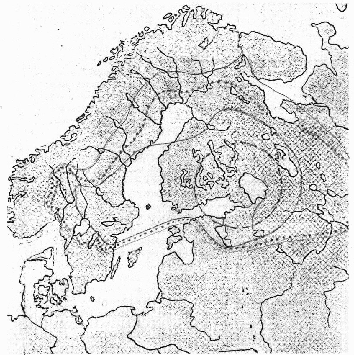 Huuhta cultivation spread, within the circle in 1500 AD entire line in 1600 AD dashed in 1700 AD It appears that huuhta originated in the forests northeast of Viborg even the 1300's, but the prevalence accelerated only later. The expansion continued in the 1800s and to Twer in Russia, Delaware in North America and several areas in Siberia.